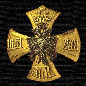 Badge of Sumsky 1st Husar Regiment